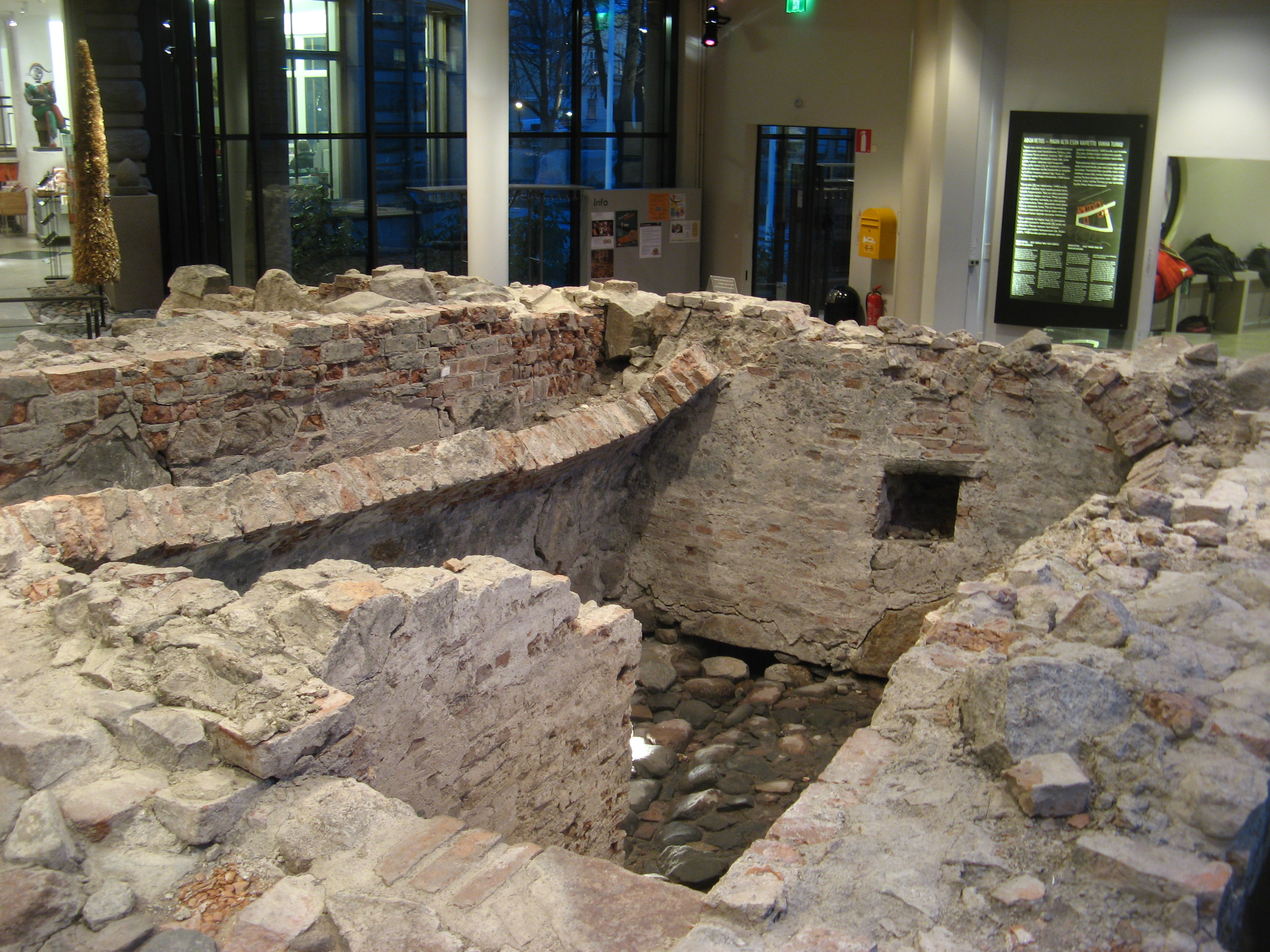 Old cellars in the entrance hall of Aboa Vetus & Ars Nova in Turku.